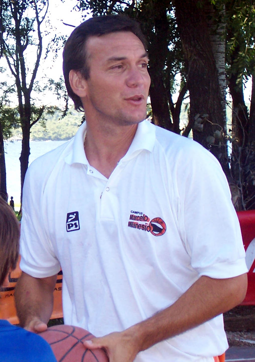 Argentine basketball player, Marcelo Milanesio, at the Villa Carlos Paz Campus, Córdoba Province.